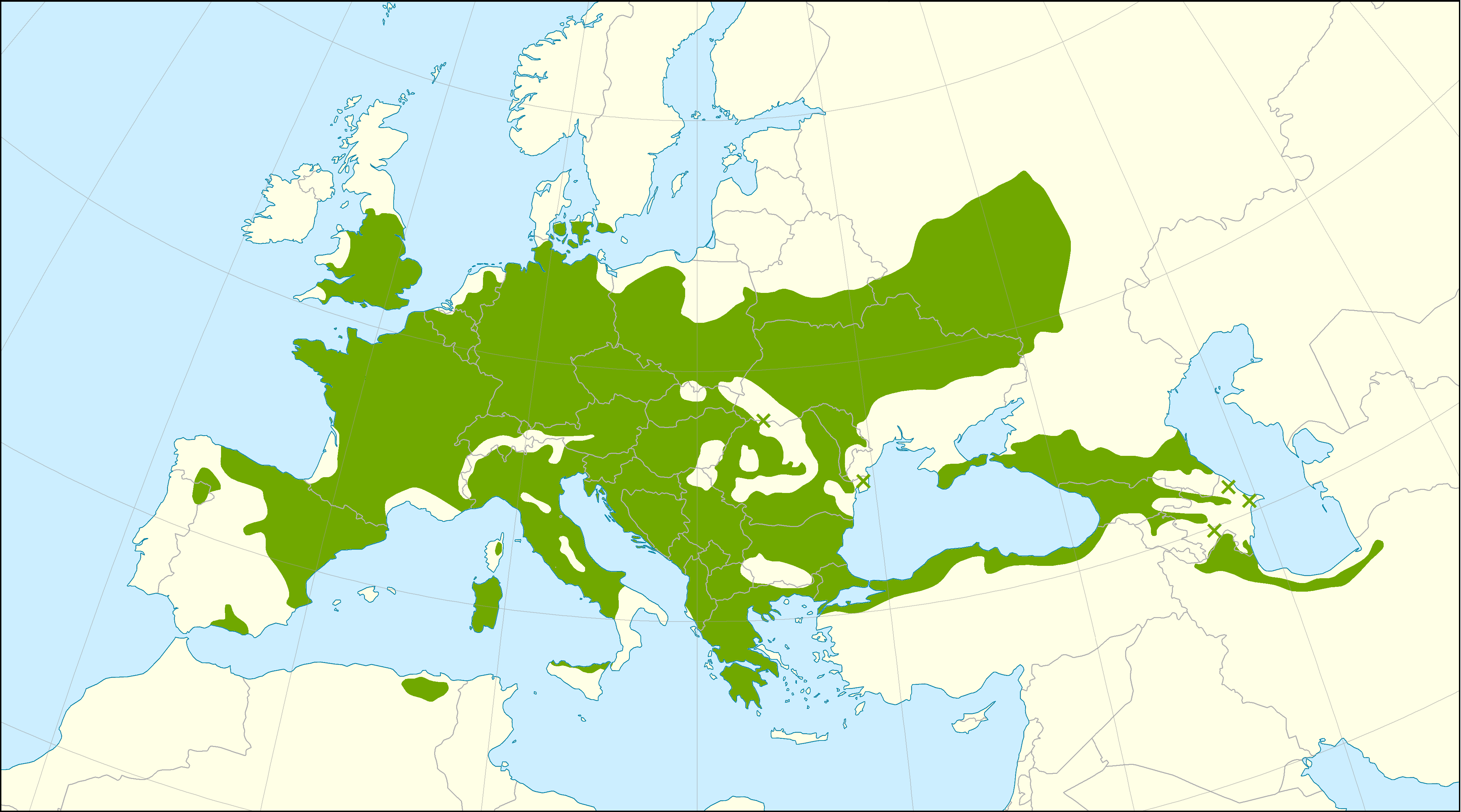 Distribution map of the native range of Acer campestre (field maple).